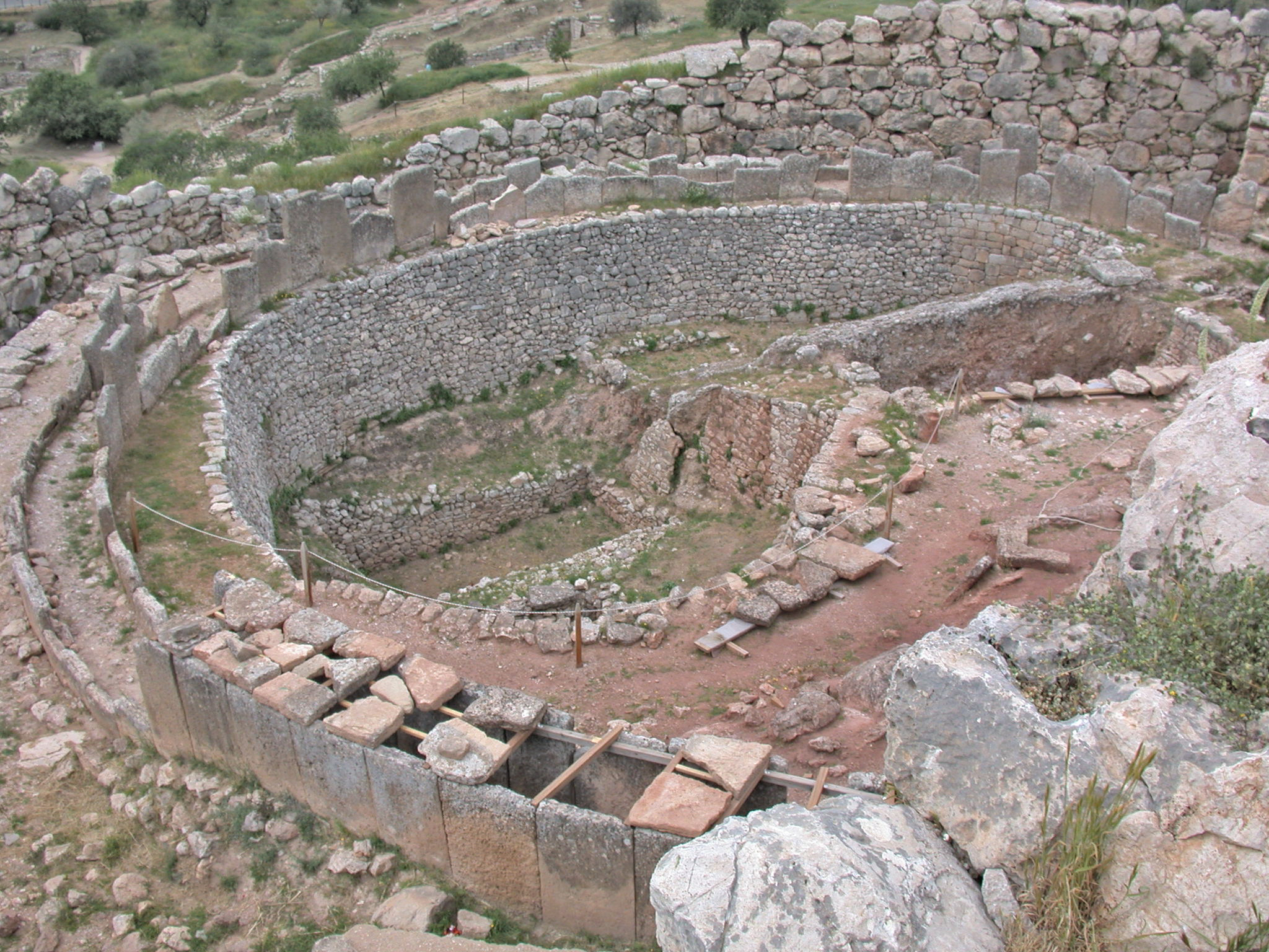 Mycenae, Circle of royal tombs